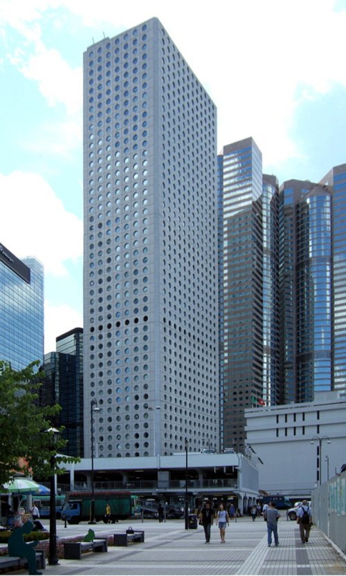 Jardine House, taken from Edinburgh Place